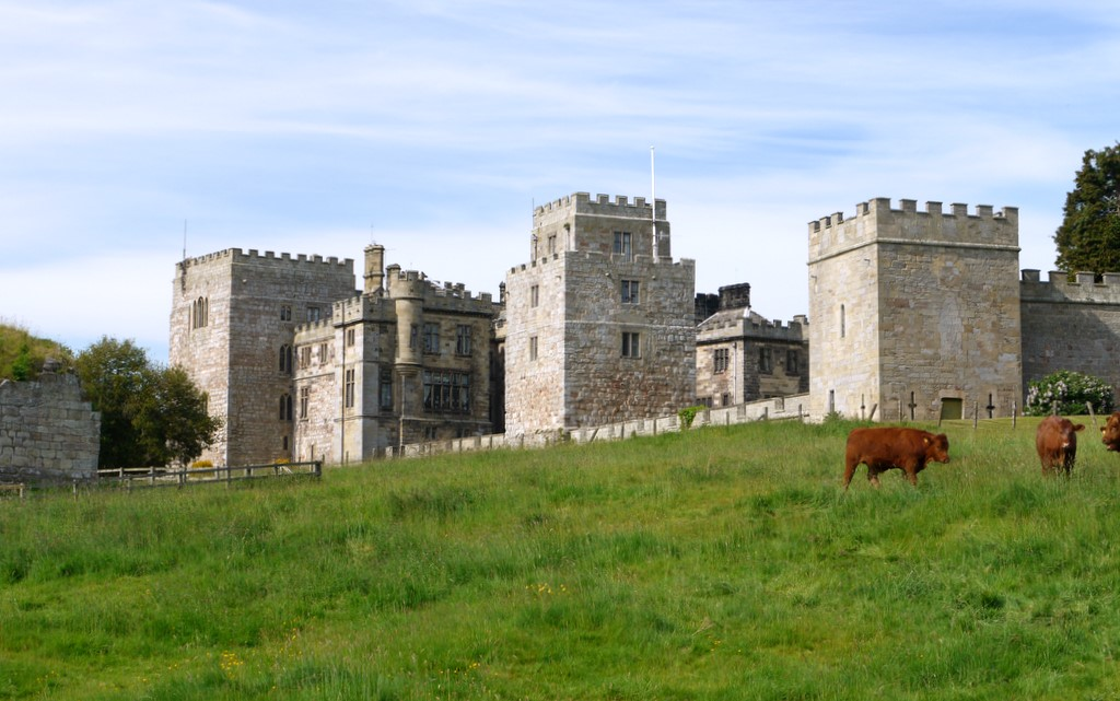 Ford Castle, near to Ford, Northumberland, Great Britain. The castle dates from about 1278. It is a quadrangular type castle with four corner towers, three of which survive. It was converted into a mansion in 1694. The castle was acquired in 1907 by James Joicey, 1st Baron Joicey, and it remains in the ownership of his family, although since 1956 it has been leased to Northumberland County Council as a Young Persons Residential Centre Link There are photos and a potted history here Link